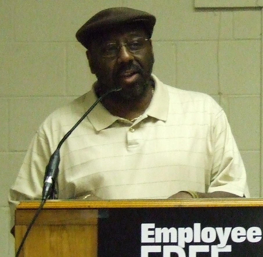 State Representative John L. Bartlett, District 95